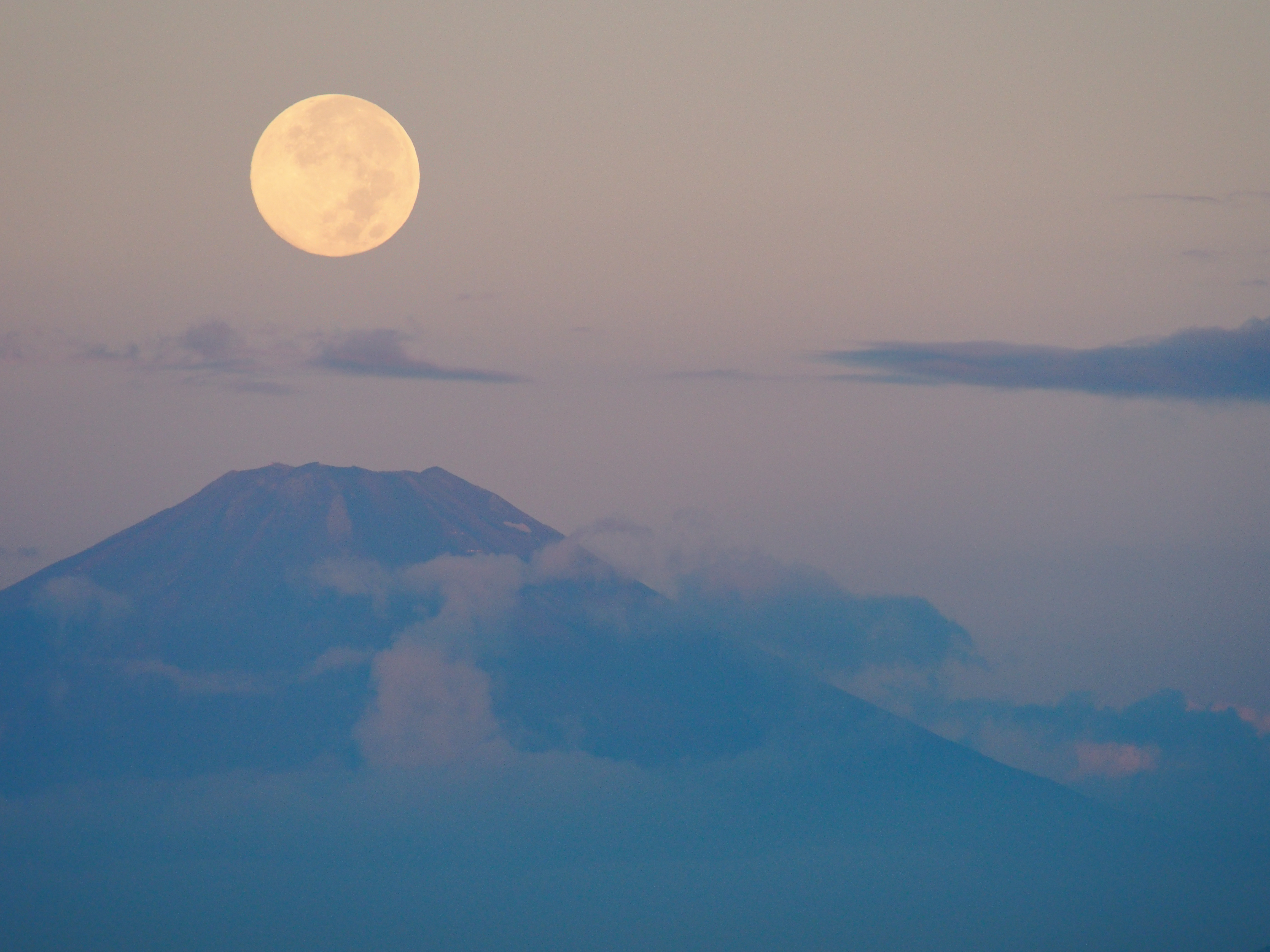 Mt. Fuji with the moon, shot before sunrise.